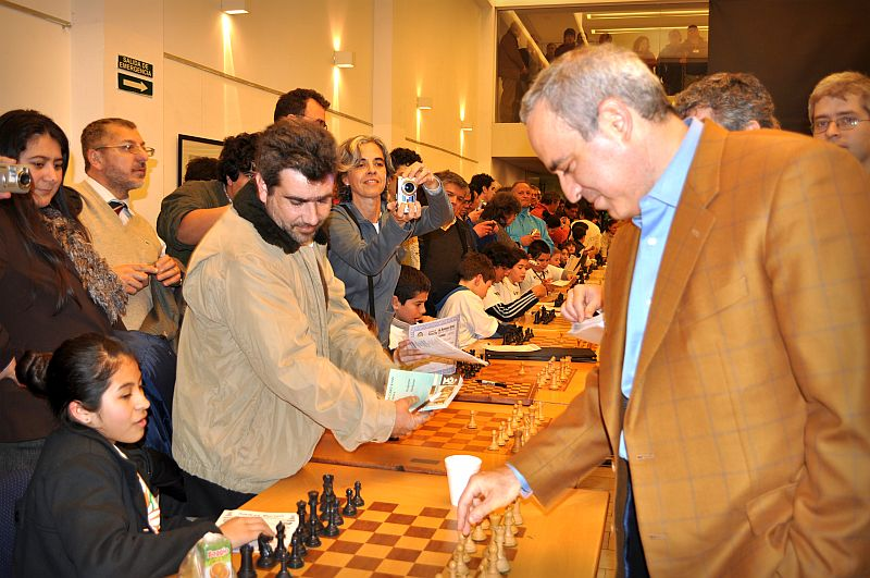 GM Gary Kasparov playing chess in Villa Martelli.